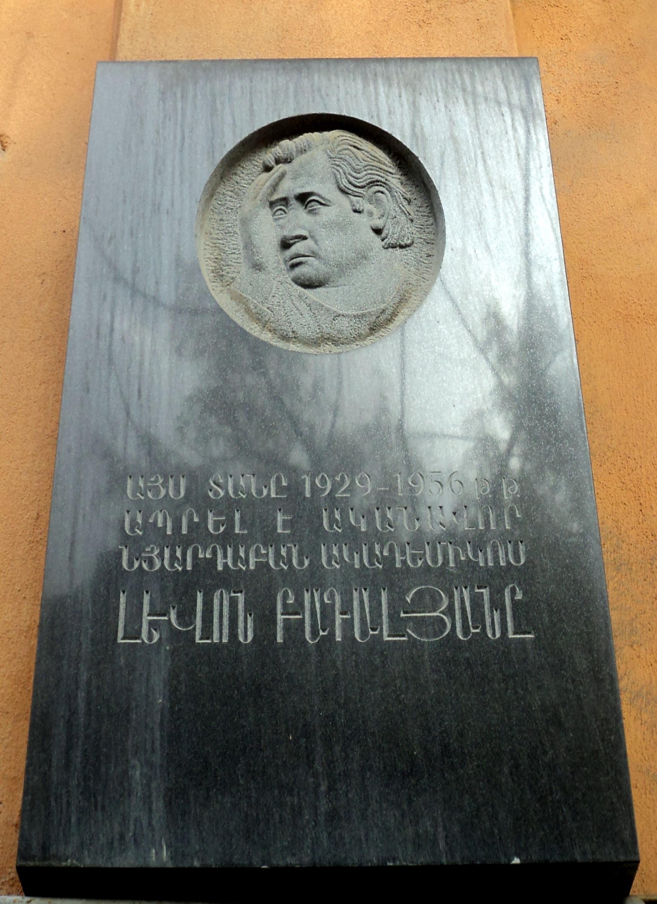 Levon Badalyan's plaque